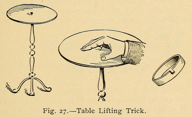 A table levitation trick revealed by the magician Chung Ling Soo.